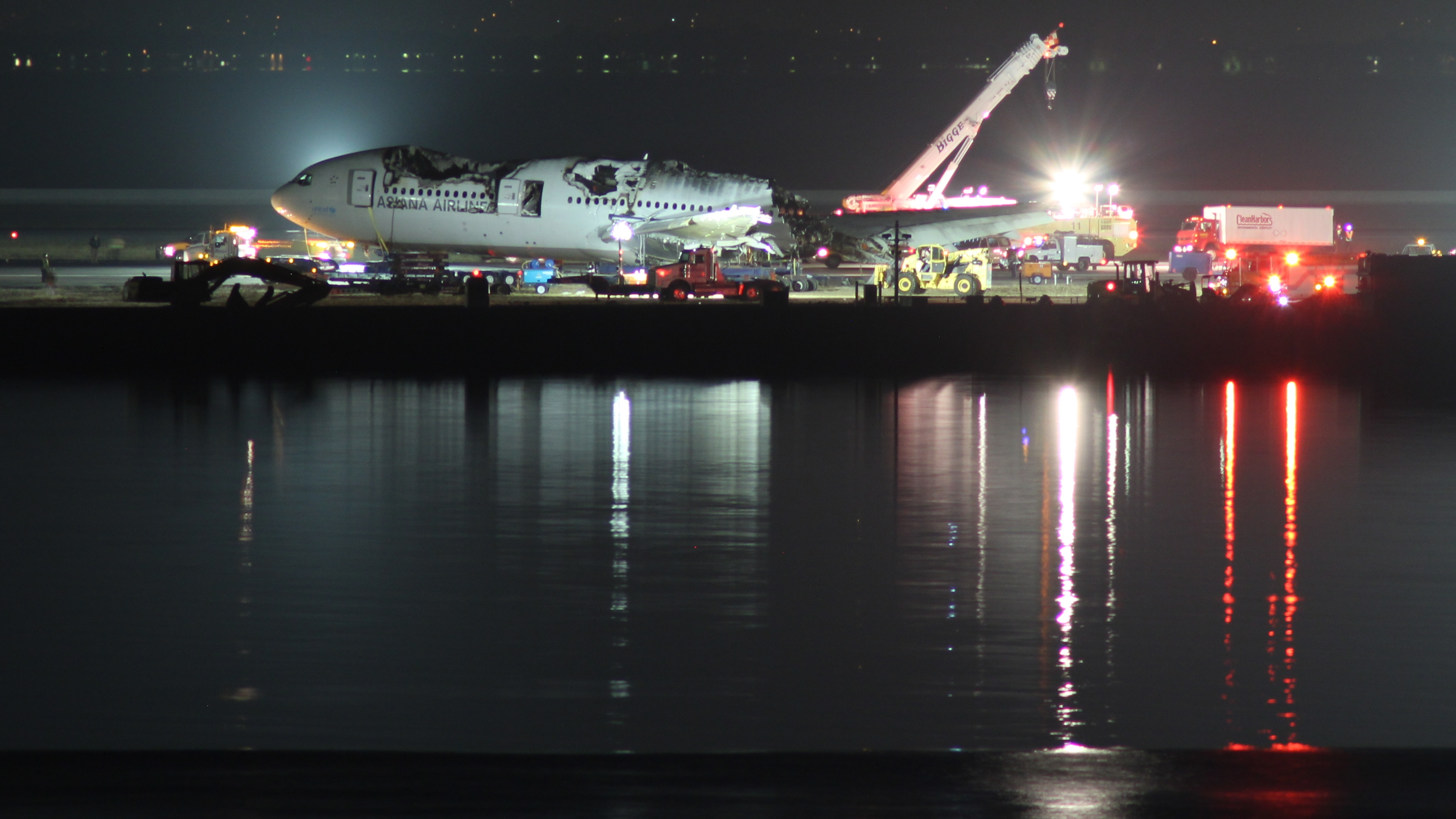 Crews work through the night to remove the fuselage of a destroyed Boeing 777-200ER from a field adjacent to Runway 28L at San Francisco International Airport (SFO). Asiana Airlines flight 214 crash landed at SFO on 6 July 2013.中文（中国大陆）: 船员工作至深夜相邻跑道28L在旧金山国际机场（SFO）从现场移除一个被毁坏的波音777-200ER的机身。韩亚航空公司214航班坠毁在证券及期货条例“于2013年7月6日。